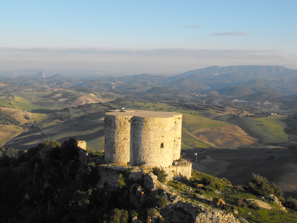 The 'castle' at Montellano